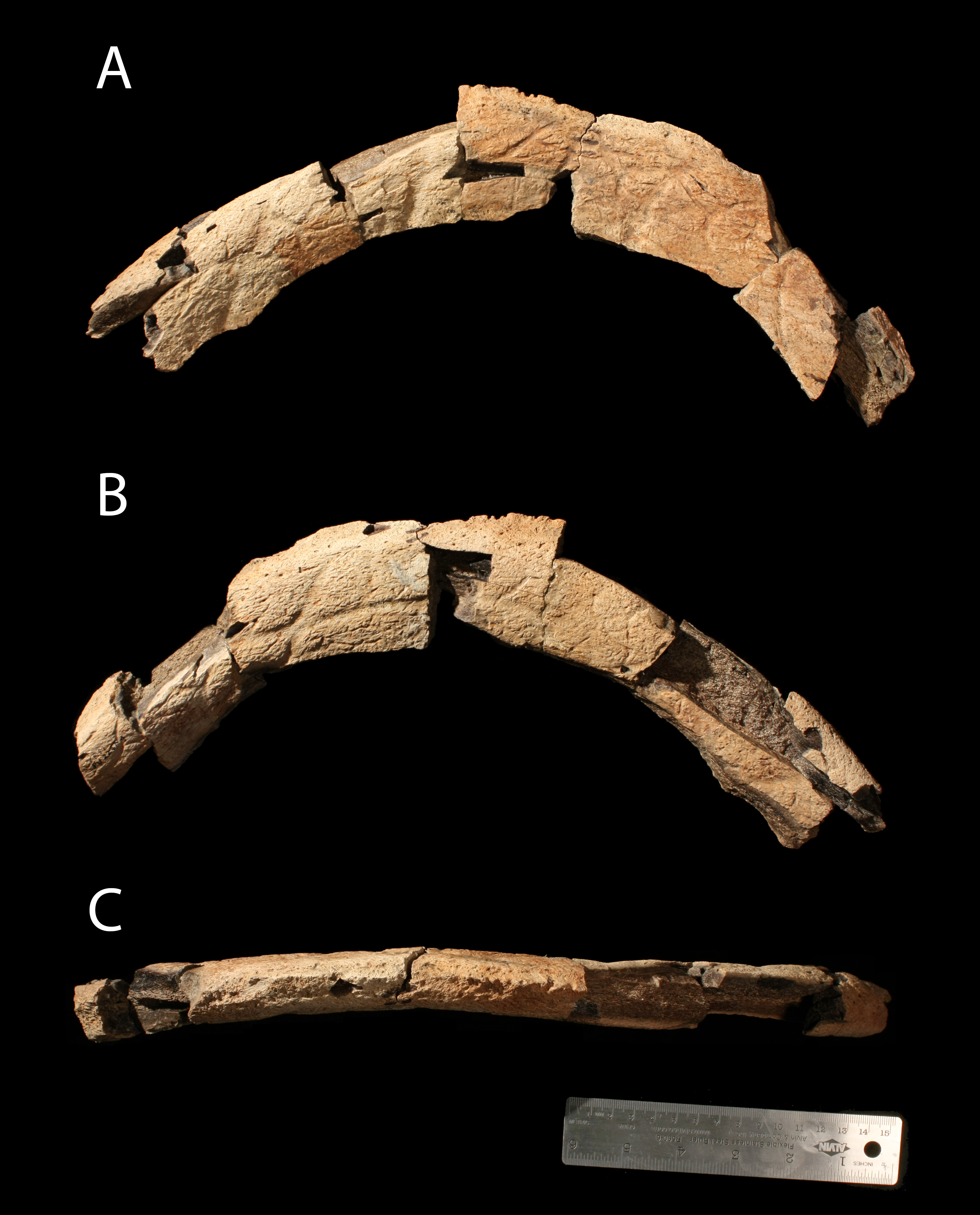 Posterior margin of the frill (parietal) of the dinosaur Judiceratops tigris (Dinosauria: Ornithischia: Ceratopsia: Ceratopsidae: Chasmosaurinae) from the Late Cretaceous (Late Campanian) Judith River Formation of Montana. Photographs by Nick Longrich. Additional digital editing by Nick Longrich.